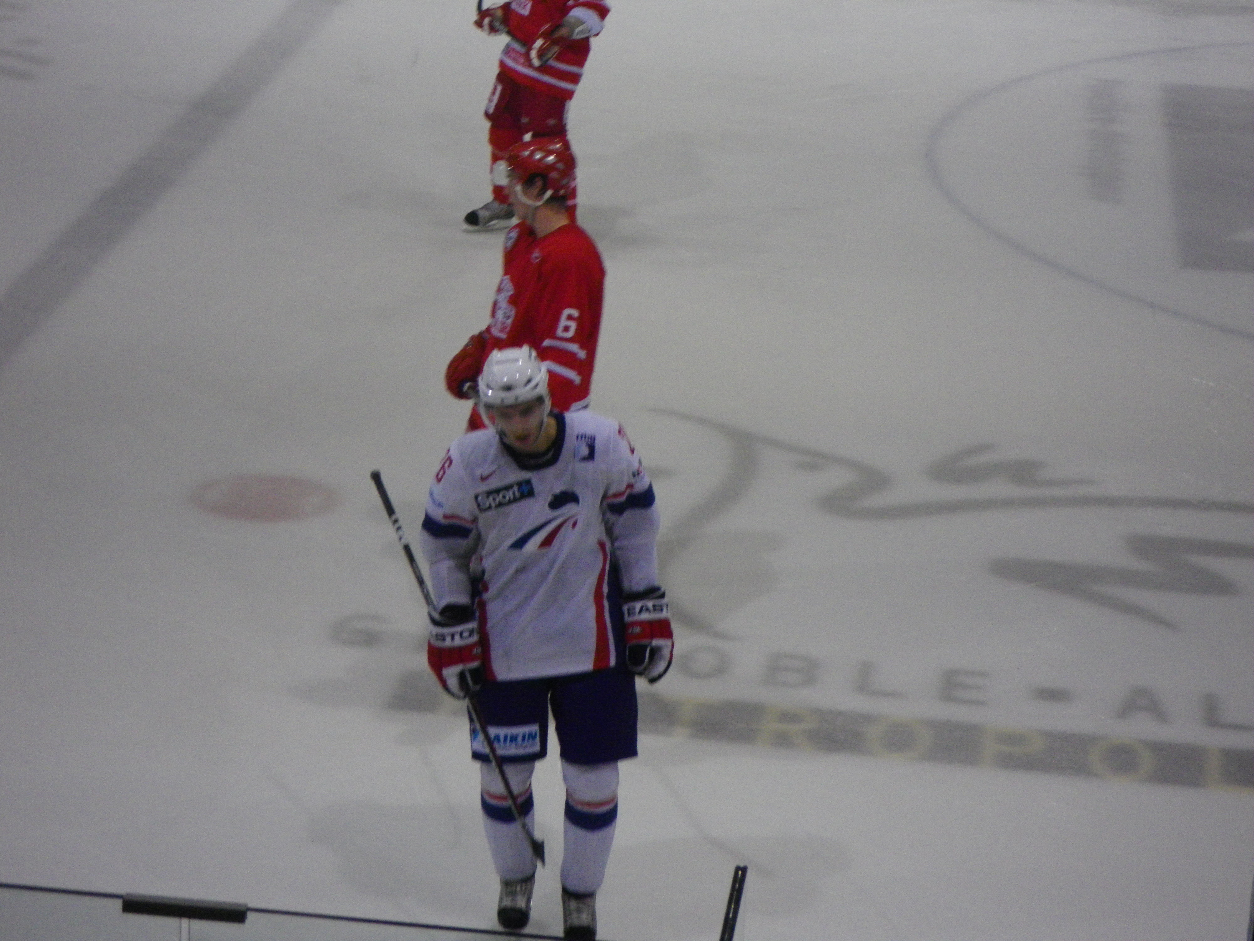 Anthoine Lussier, french ice hockey player with team France. Friendly against Team Denmark.